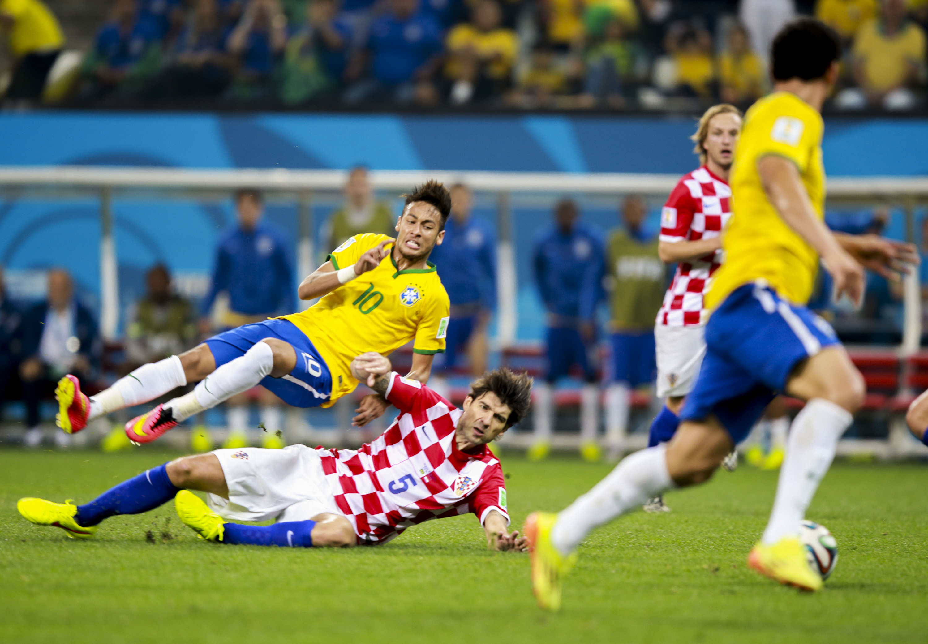 Brazil and Croatia match at the FIFA World Cup 2014-06-12